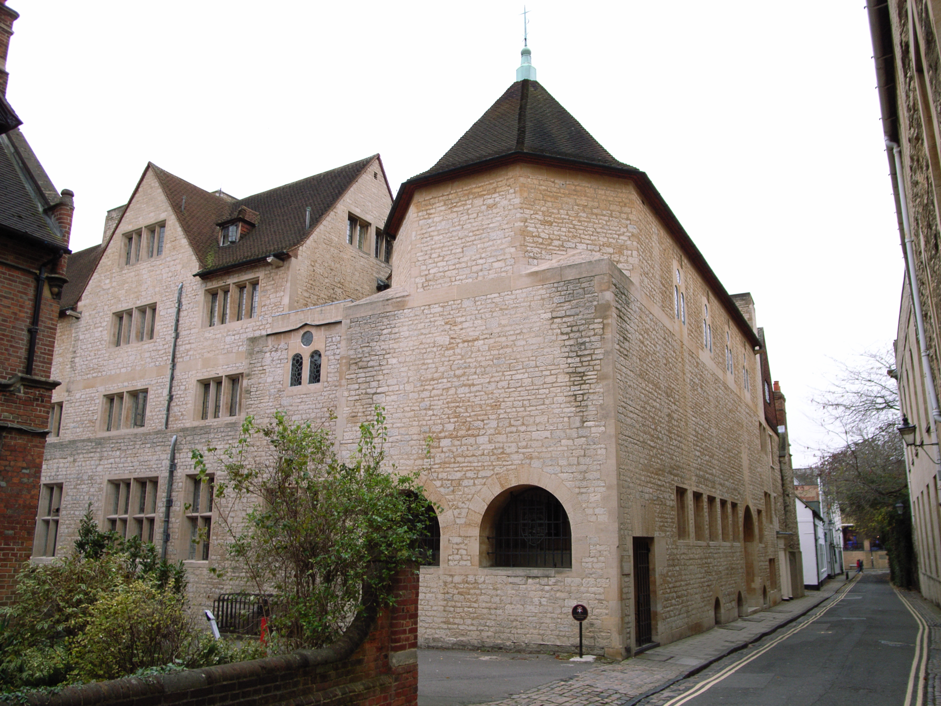 Campion Hall (1935-7) by Edwin Lutyens, Oxford. View from Brewer Street.